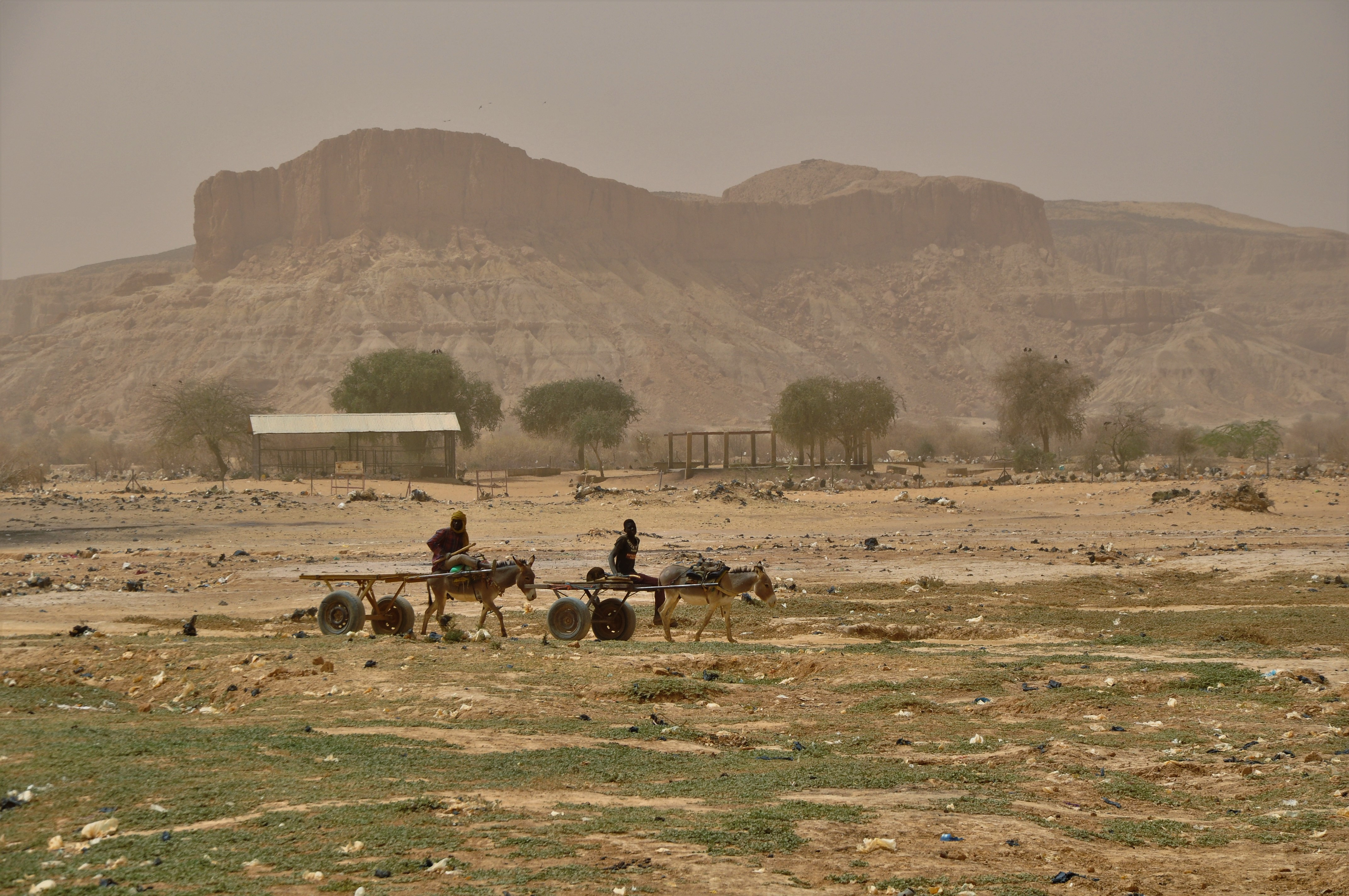 View from the western part of the town of Filingué (in Niger) over the Dallol Bosso valley towards the escarpment.